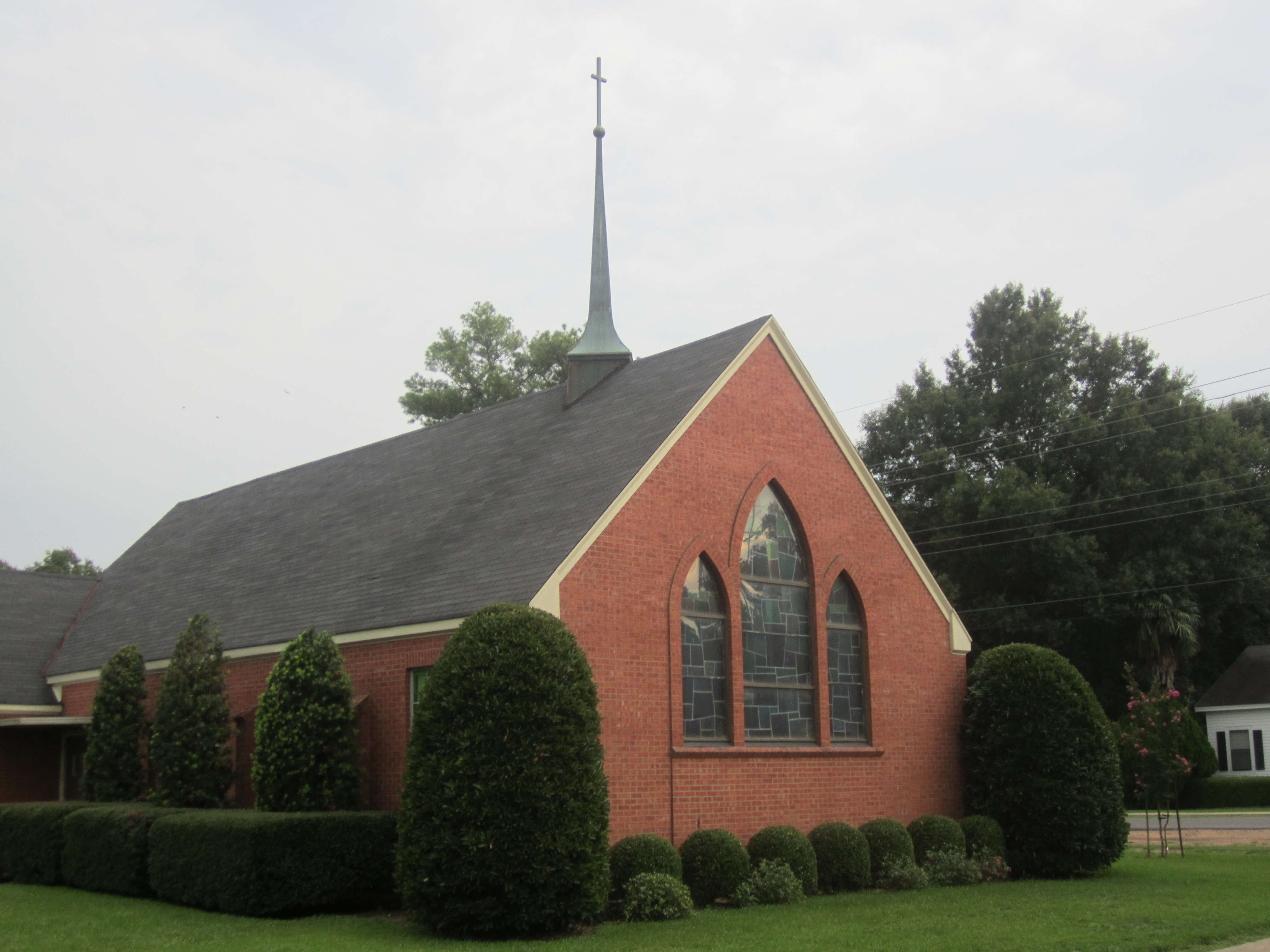 I took photo with Canon camera in Gilbert, LA.